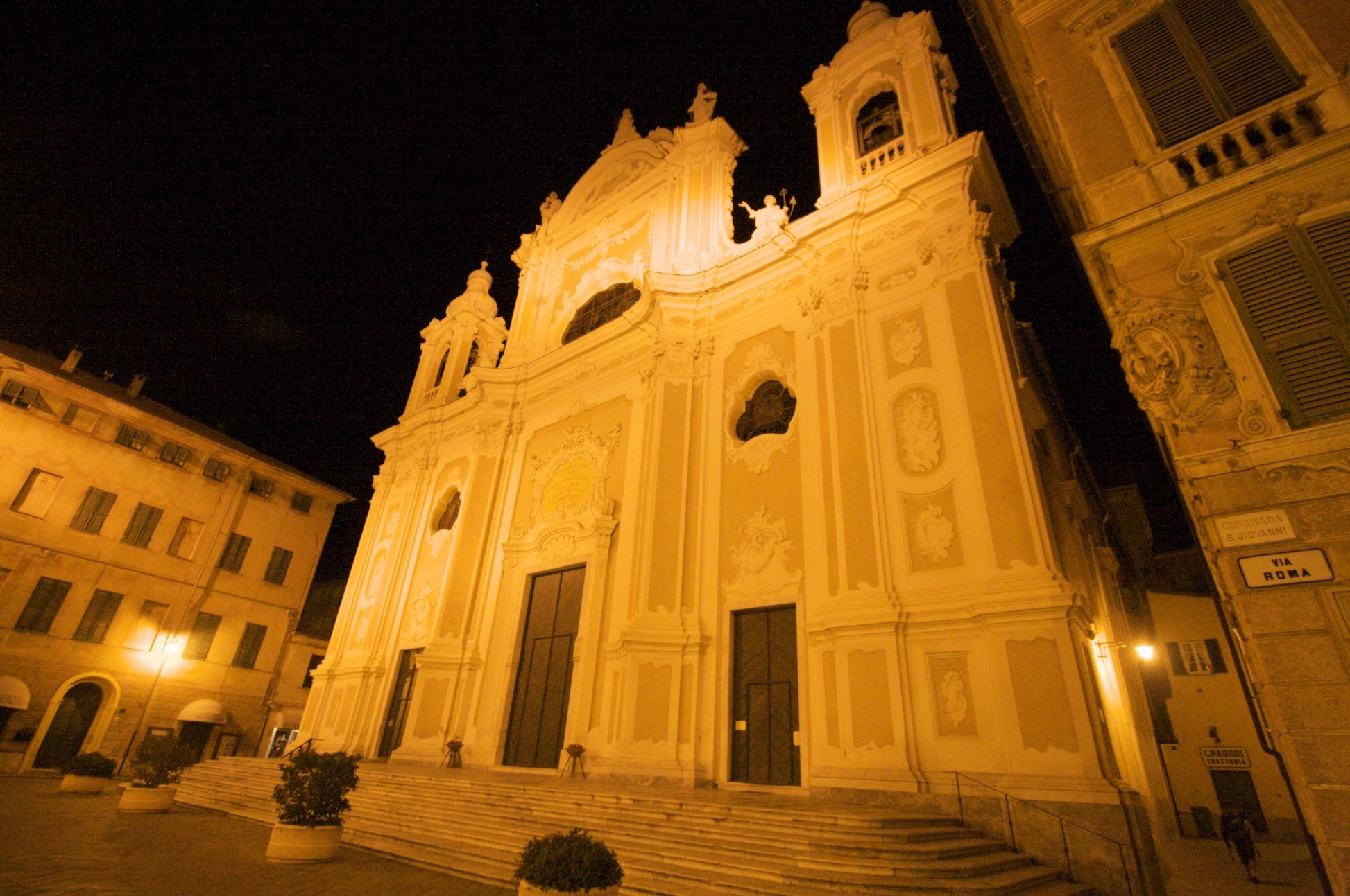 Basilica of St. John the Baptist in Finale Ligure, Italy